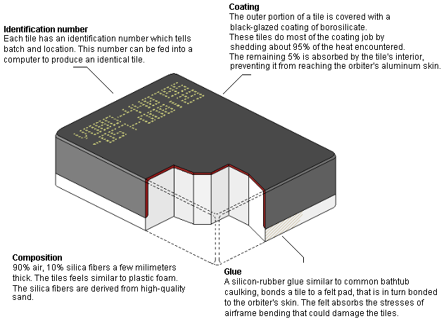 Diagram of a High-Temperature Reusable Insulation (HRSI) tile